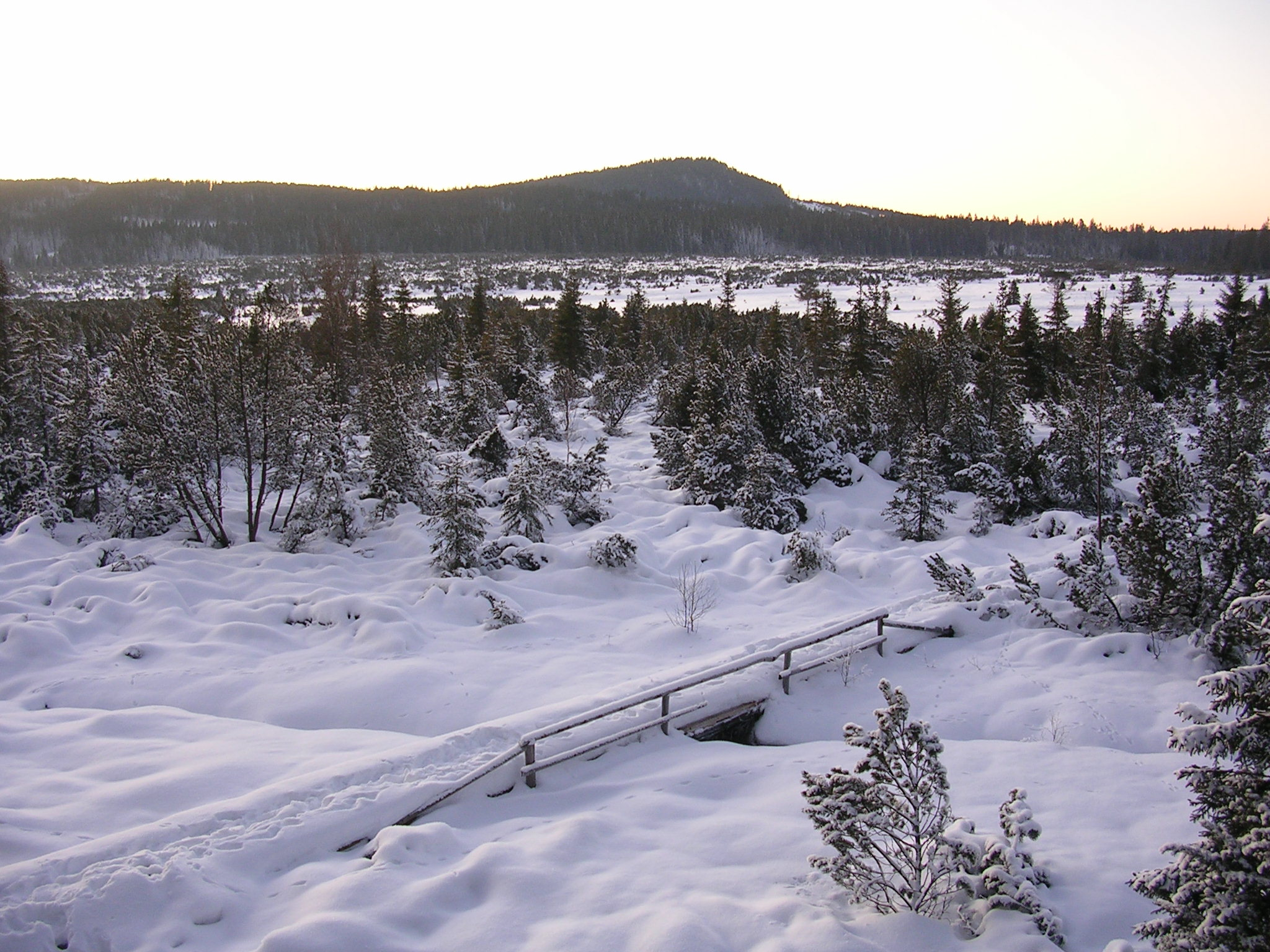 Kvilda, the Czech Republic.